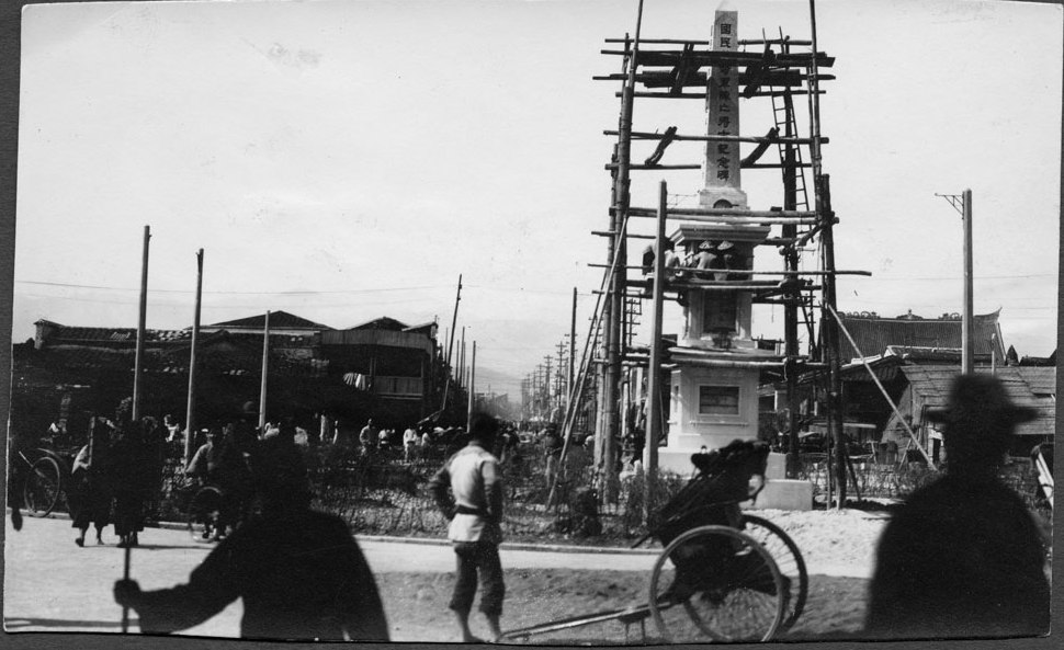 Monument erected on the ground formerly occupied by Foochow South Gate. The inscription reads "Monument for the Fallen Soldiers of the National Revolutionary Army"